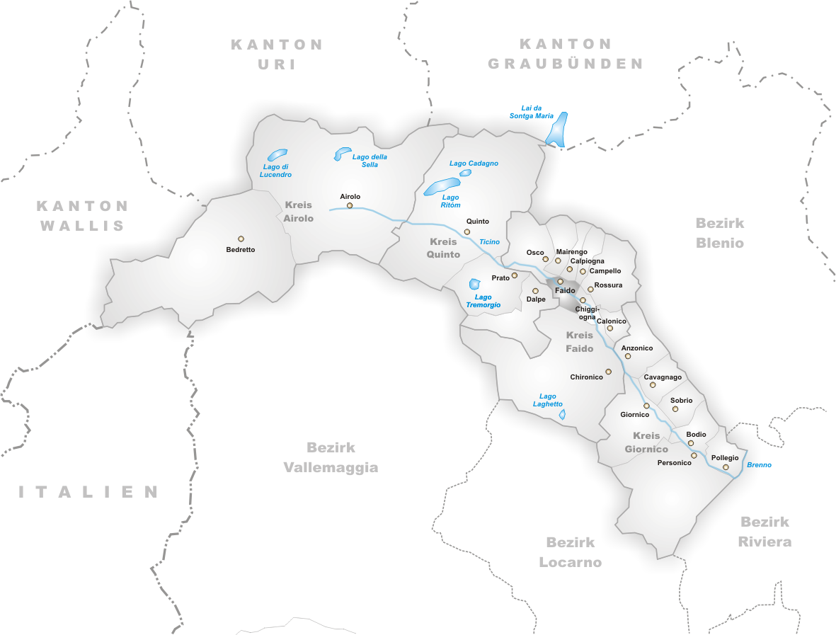 Municipality Faido